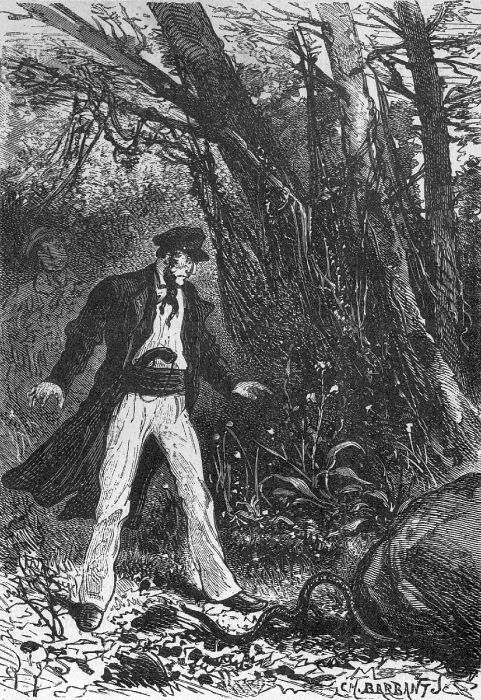 Illustration to Jules Verne's short story A Drama in Mexico (Un drame au Mexique), 1851